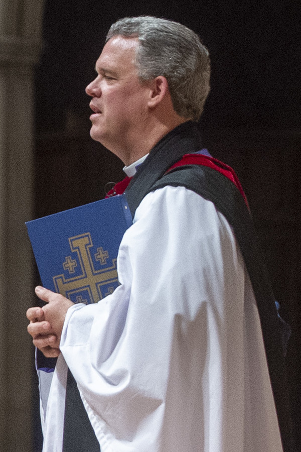 Marine Corps Gen. Joe Dunford, chairman of the Joint Chiefs of Staff, attends the Centenary of Mateship Commemorative Service at the Washington National Cathedral, June 27, 2018. In 2018, Australia and the United States celebrate 100 years of mateship that was first forged in the trenches of World War I during the Battle of Hamel, July 4, 1918.(DOD photo by Navy Petty Officer 1st Class Dominique A. Pineiro)